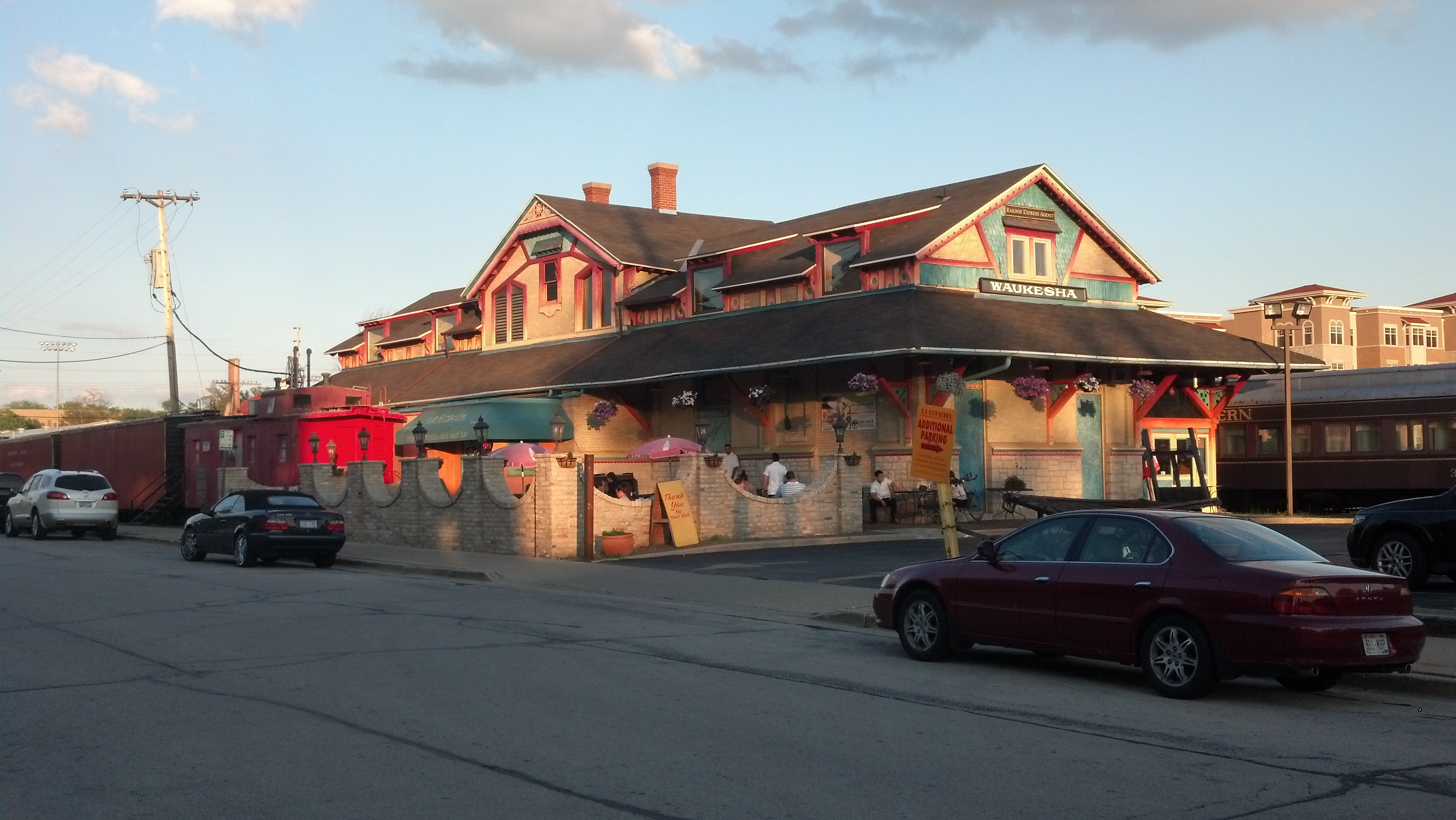 Chicago and Northwestern Railroad Passenger Depot